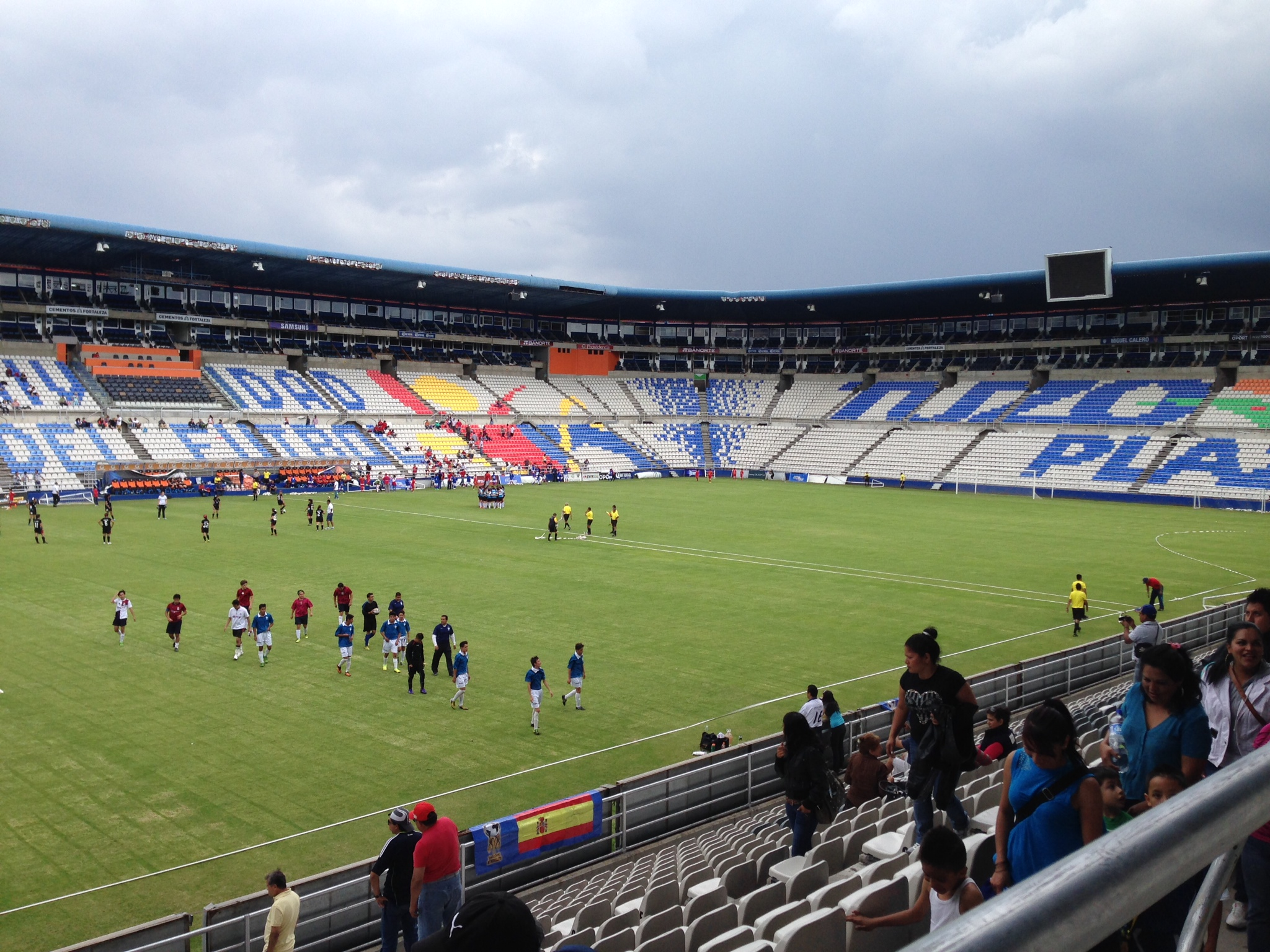 A tournament is taking place on the field of the Pachuca Stadium, Hidalgo (Mexico).